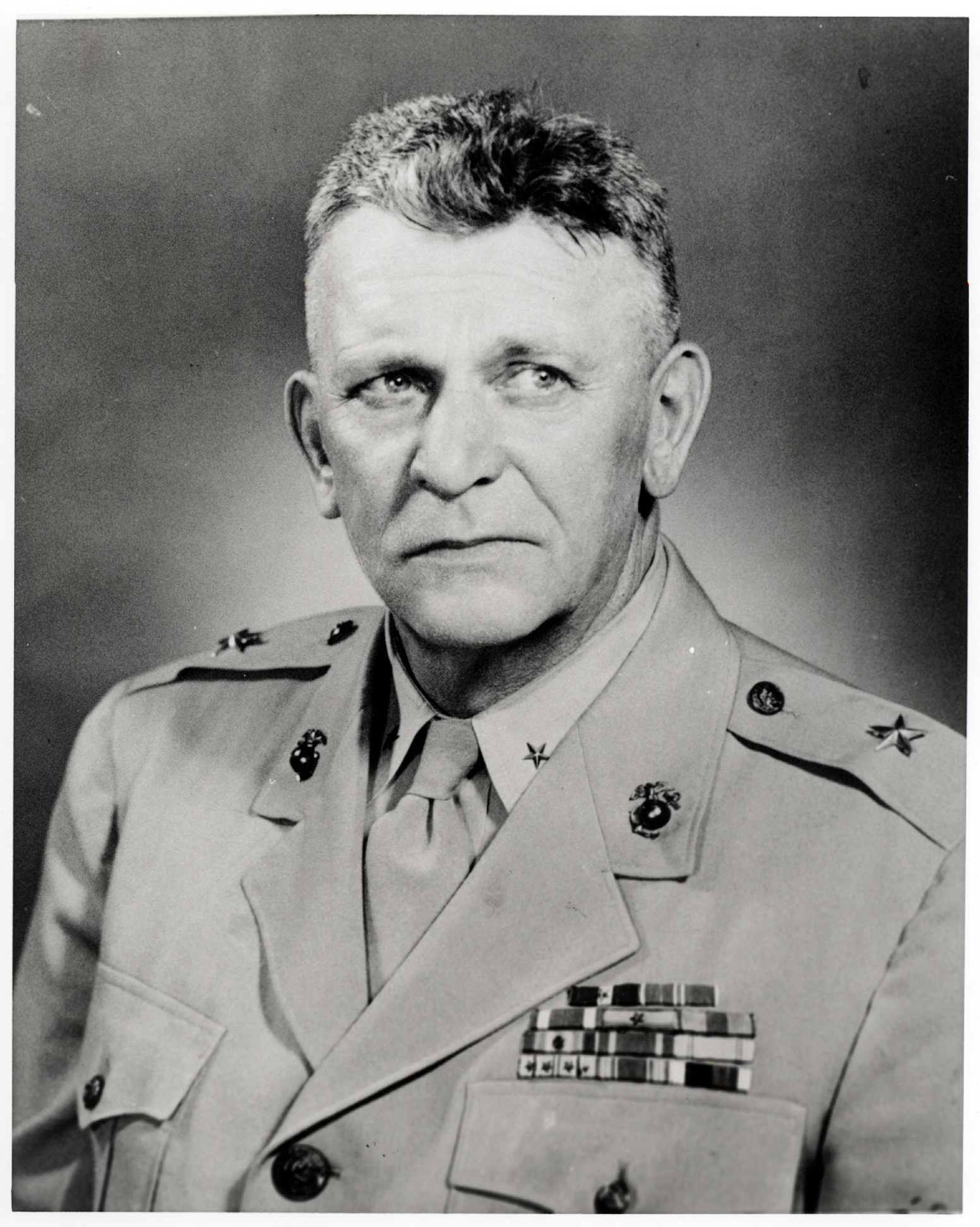 BGen Harry B. Liversedge, USMC, World War II Marine Raider, leader during the Battle of Iwo Jima